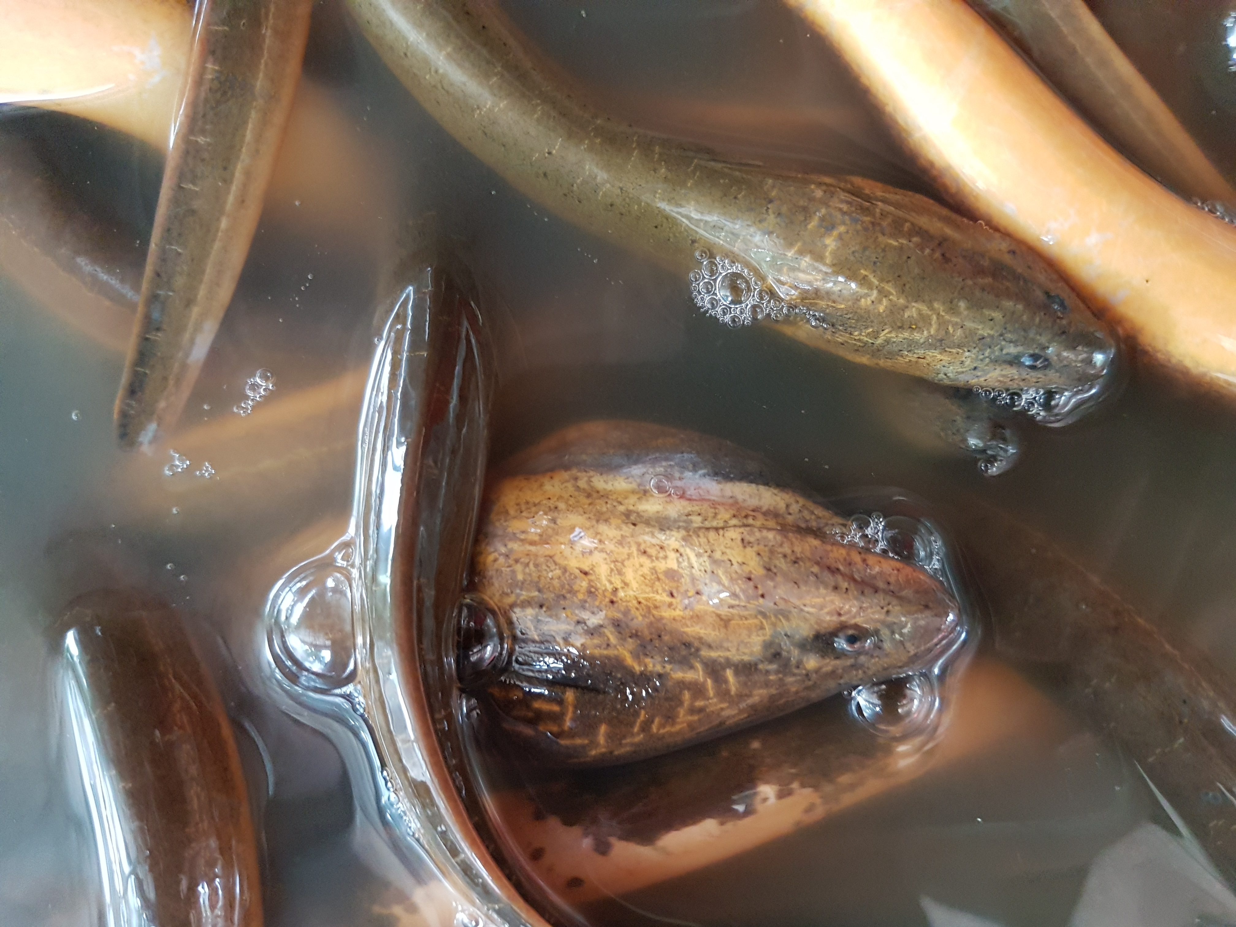 Asian swamp eel (Monopterus albus), locally known as kasili, at a restaurant in Mindanao, Philippines.